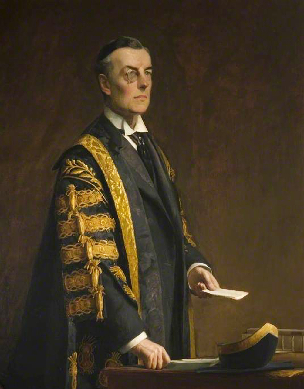 The Right Honourable Joseph Chamberlain (1836-1914)